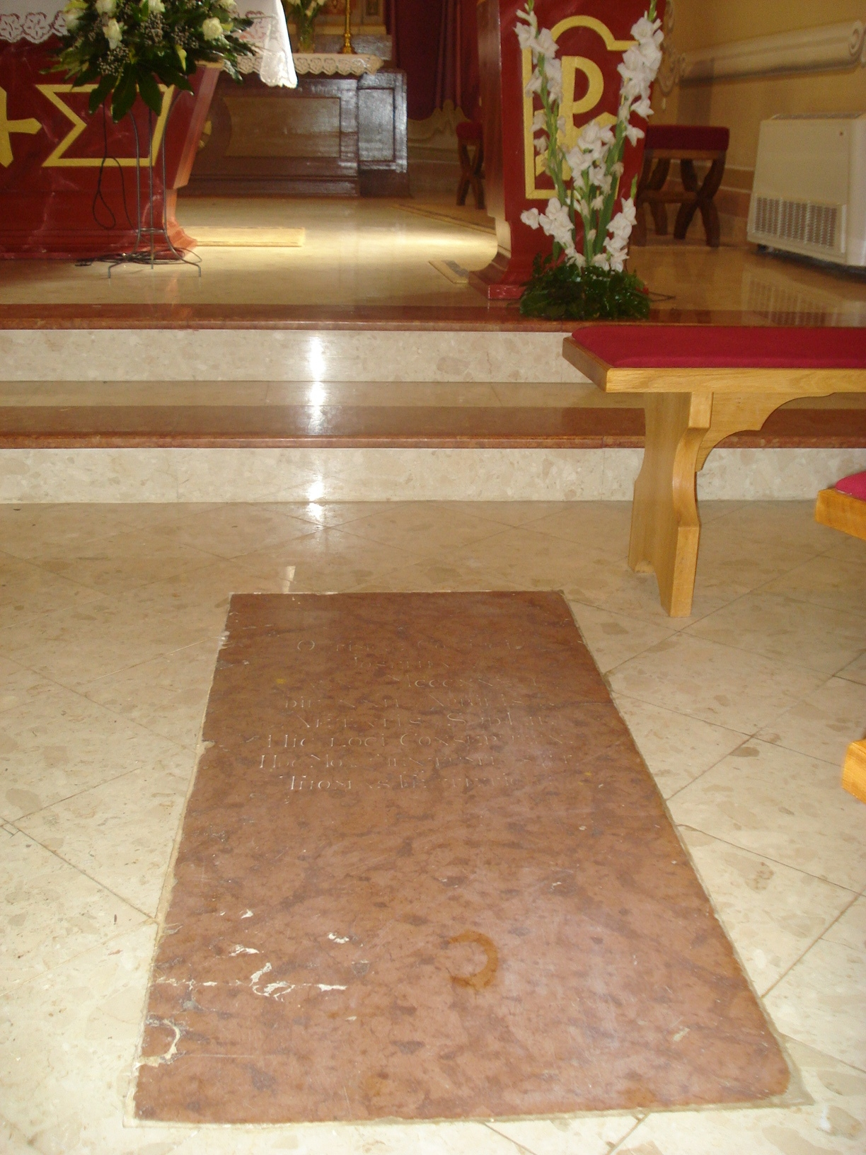 Festetich family gravestone in the parish church in Gradina near Virovitica (Croatia)